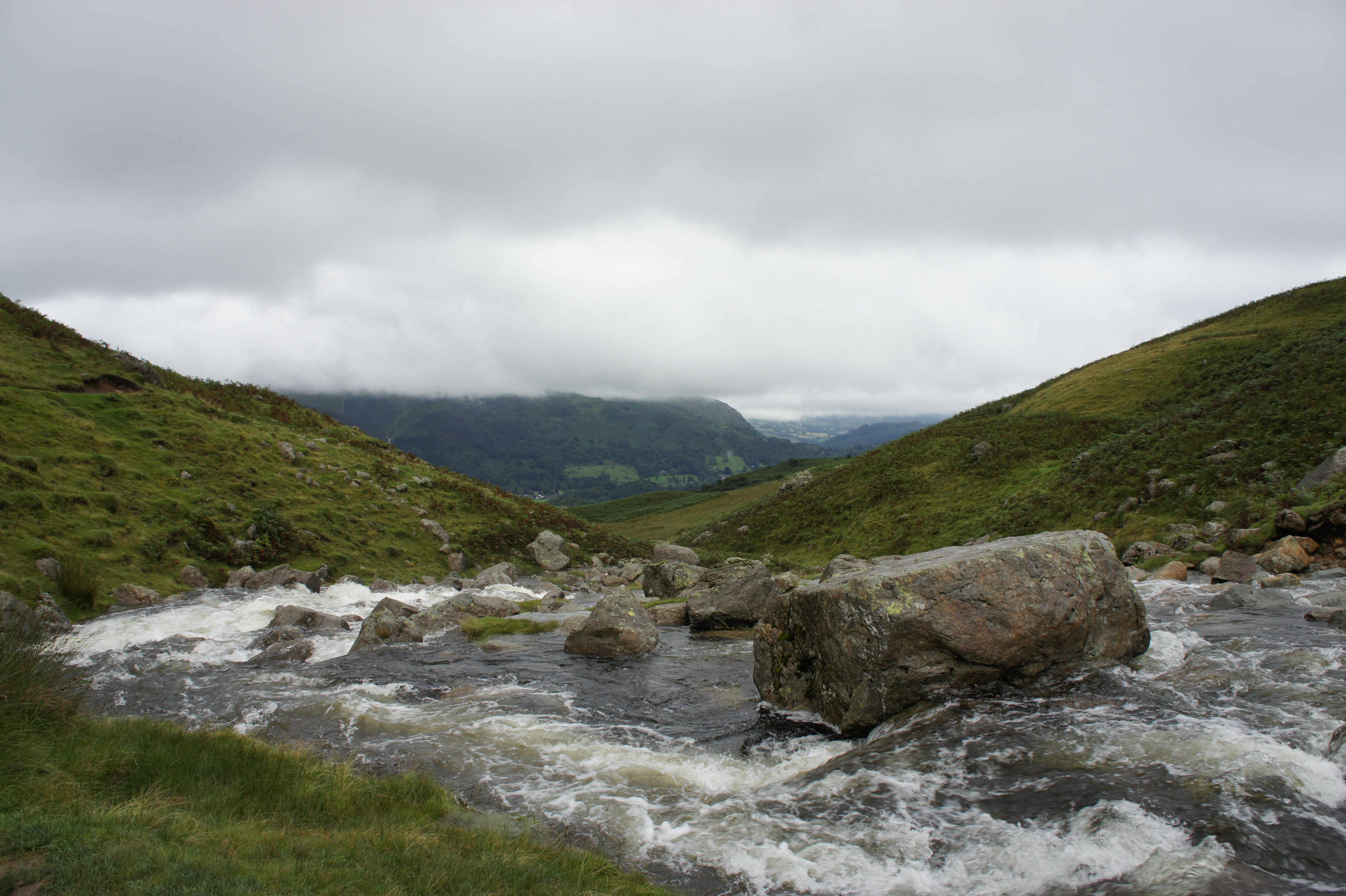 Grasmere to Easedale Tarn